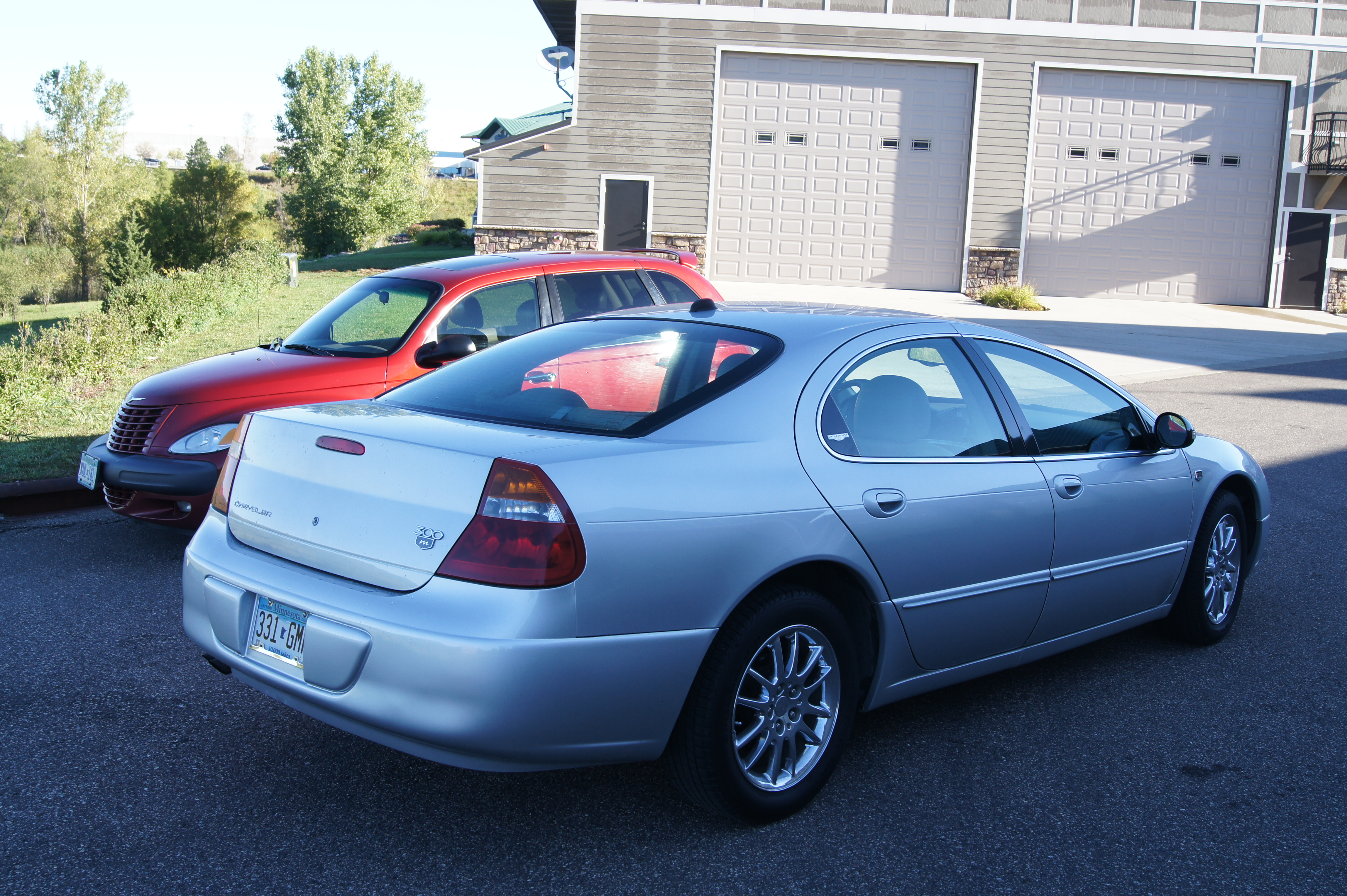 Midwest Mopars AutoMotorPlex Carshow 2013 Chanhassen Minnesota